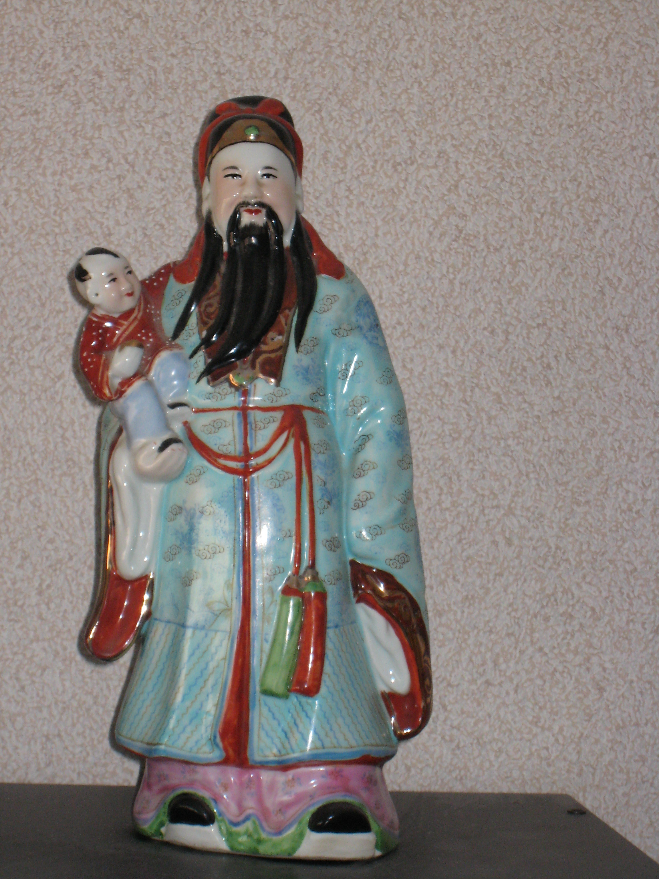 china statue of Fuxing